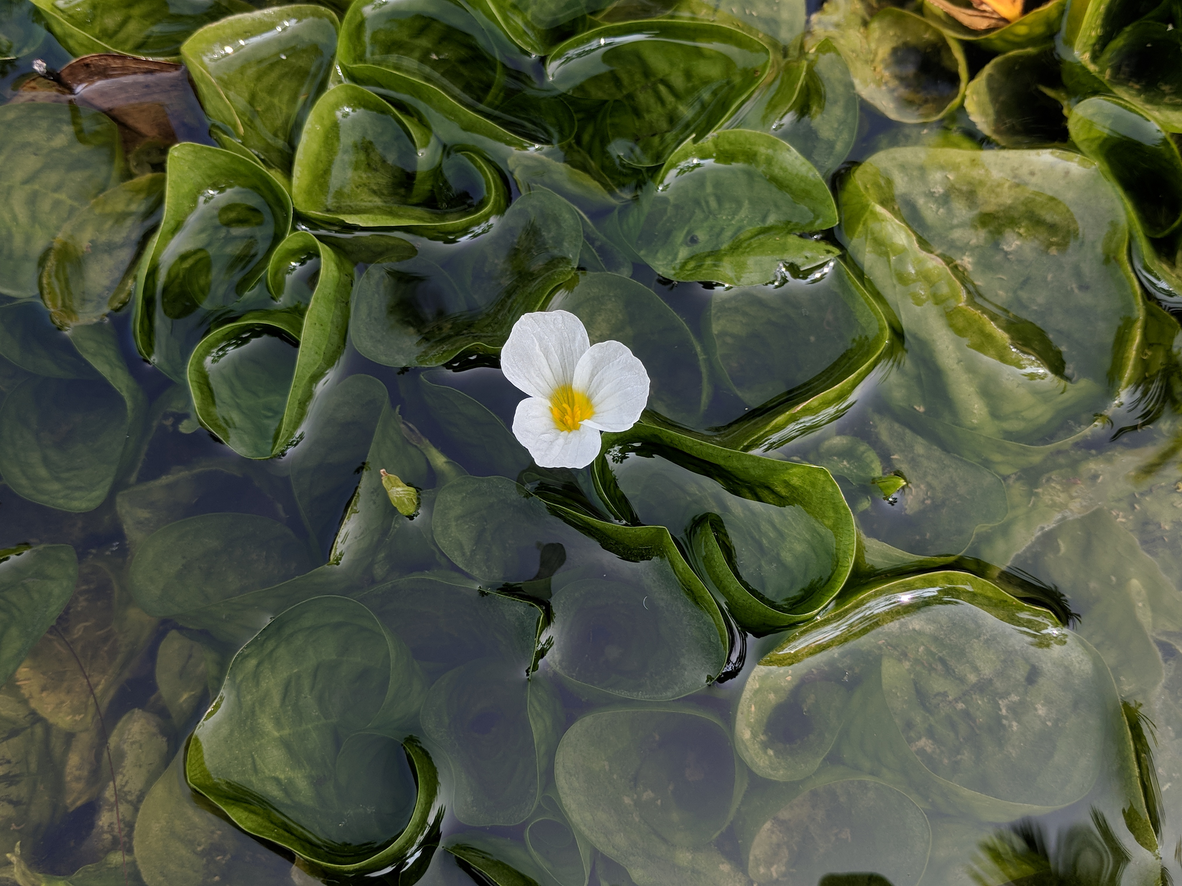 Ottelia alismoides